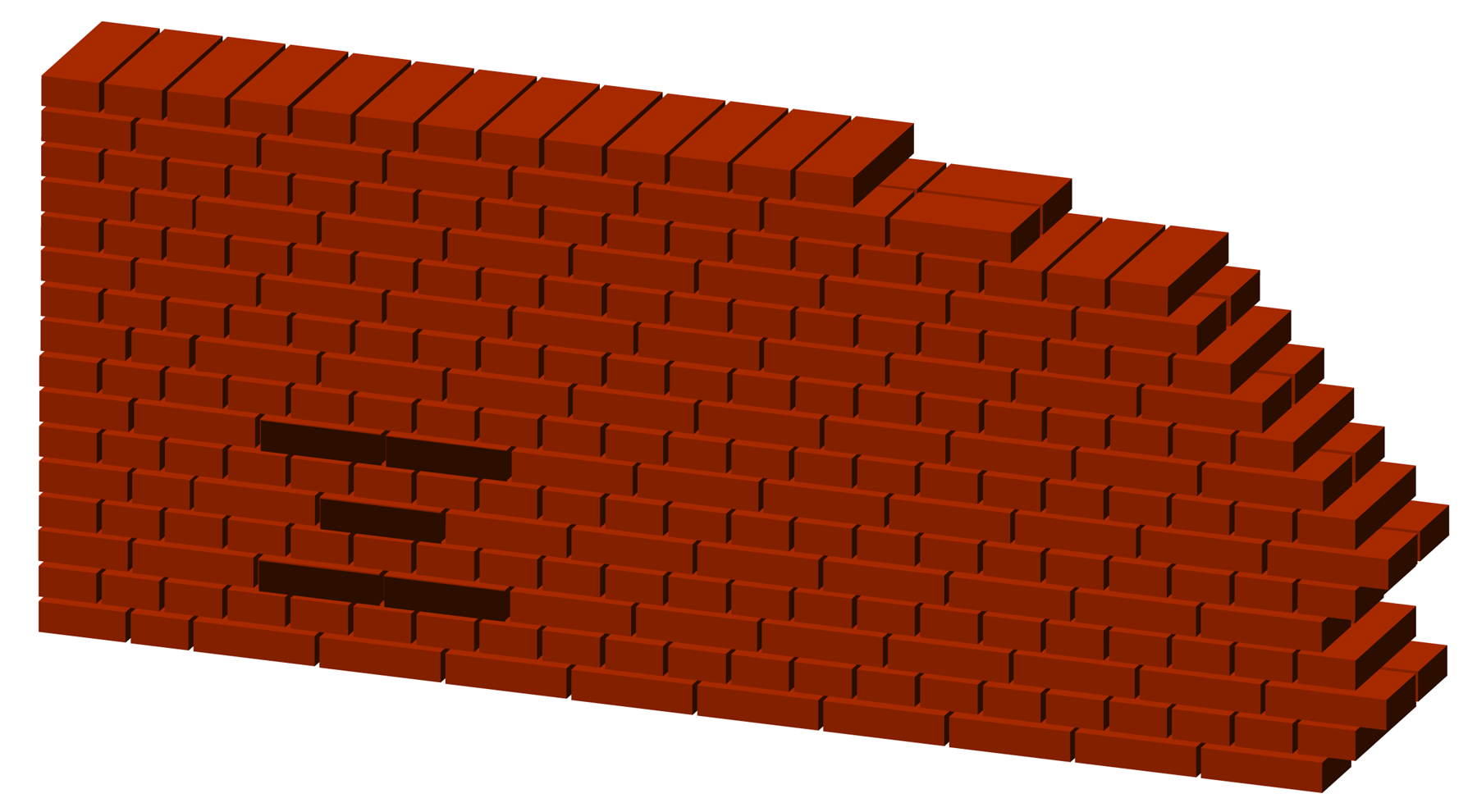 English cross bond (also known as St Andrew´s bond)